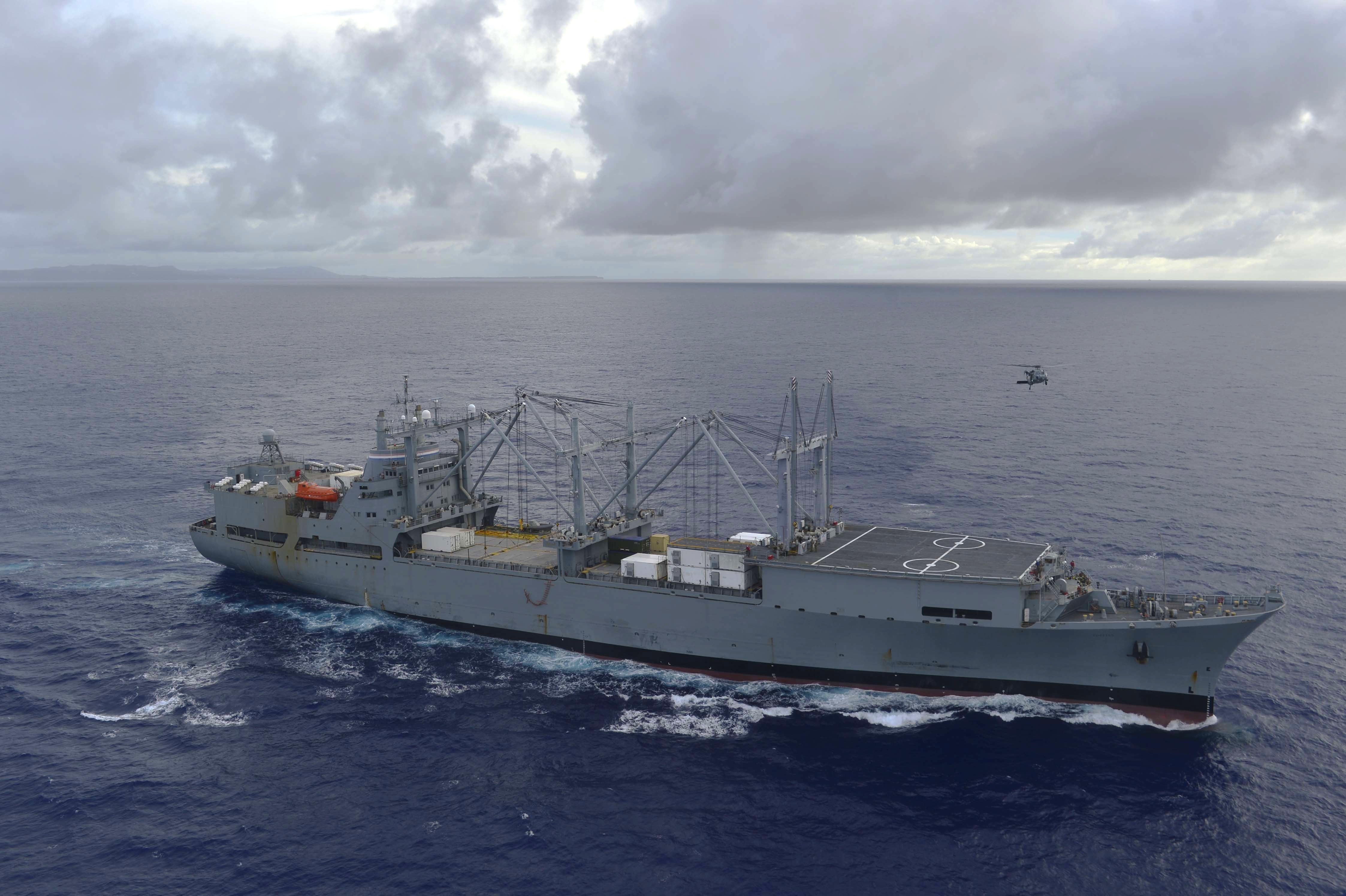 A U.S. Navy Sikorsky MH-60S Seahawk helicopter, assigned to Helicopter Sea Combat Squadron 25 (HSC-25) "Island Knights", prepares to land aboard the aviation logistics support ship SS Curtiss (T-AVB-4), which was underway in the Pacific Ocean off the coast of Guam during exercise Valiant Shield 2018 on 19 September 2018.